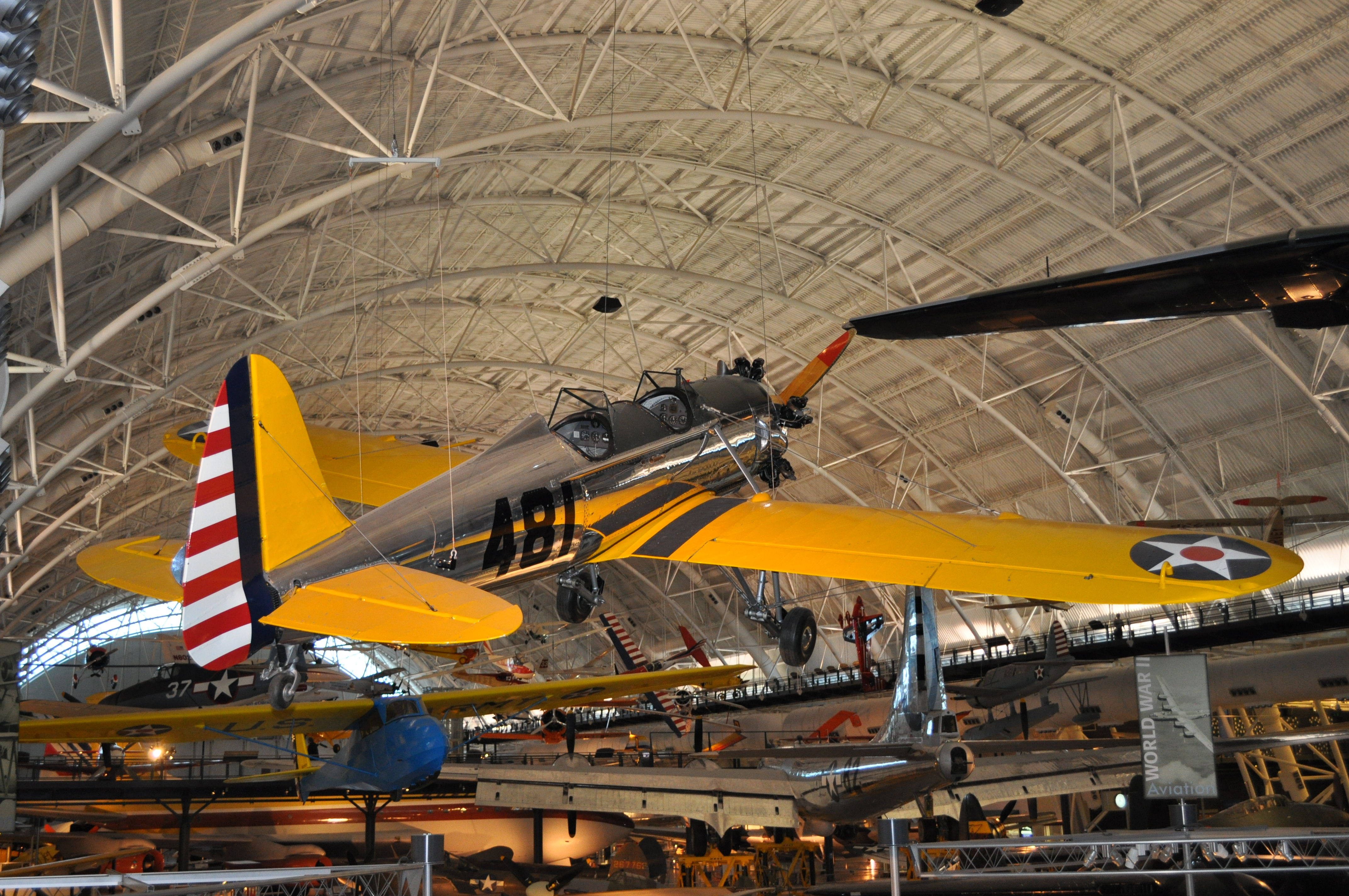 Several photos from the Steven F. Udvar-Hazy Center at the Smithsonian National Air and Space Museum Ryan PT-22 Trainer at NASM The description reads: Ryan PT-22A Recruit The PT-22A was a military trainer used mainly by the U.S. Army Air Corps and its successor, the Army Air Forces (AAF). It was the first low-wing monoplane used for primary pilot training, and it made for a smoother transition to more demanding low-wing fighter planes during World War II. The AAF accepted 1,023 PT-22s. Ryan also built PT-22s for the Navy and as part of Lend/Lease contracts with China and other Allies. This Recruit was originally the third of 25 built under contract a s afloatplane trainer for use in the Netherlands East Indies, but the sale fell through after that colony surrendered to Japanese forces in 1942. It was used as an AAF trainer until declared surplus late in the war. After 1944 it had nearly two dozen owners, who cared for and preserved the aircraft and flew it in air shows or for pleasure. gift of John M. Damgard Wingspan: 9.1 m (30 ft 1 in) Length: 6.8 m (22 ft 5 in) Height: 2.1 m (6 ft 10 in) Weight, gross: 844 kg (1,860 lb) Weight, empty: 595 kg (1,313 lb) Engine: Kinner R-540-1, 5-cylinder radial, 160 hp Crew: 2, student pilot and instructor Manufacturer: Ryan Aeronautical Co., Sandiego, Calif., 1942 A20060083000